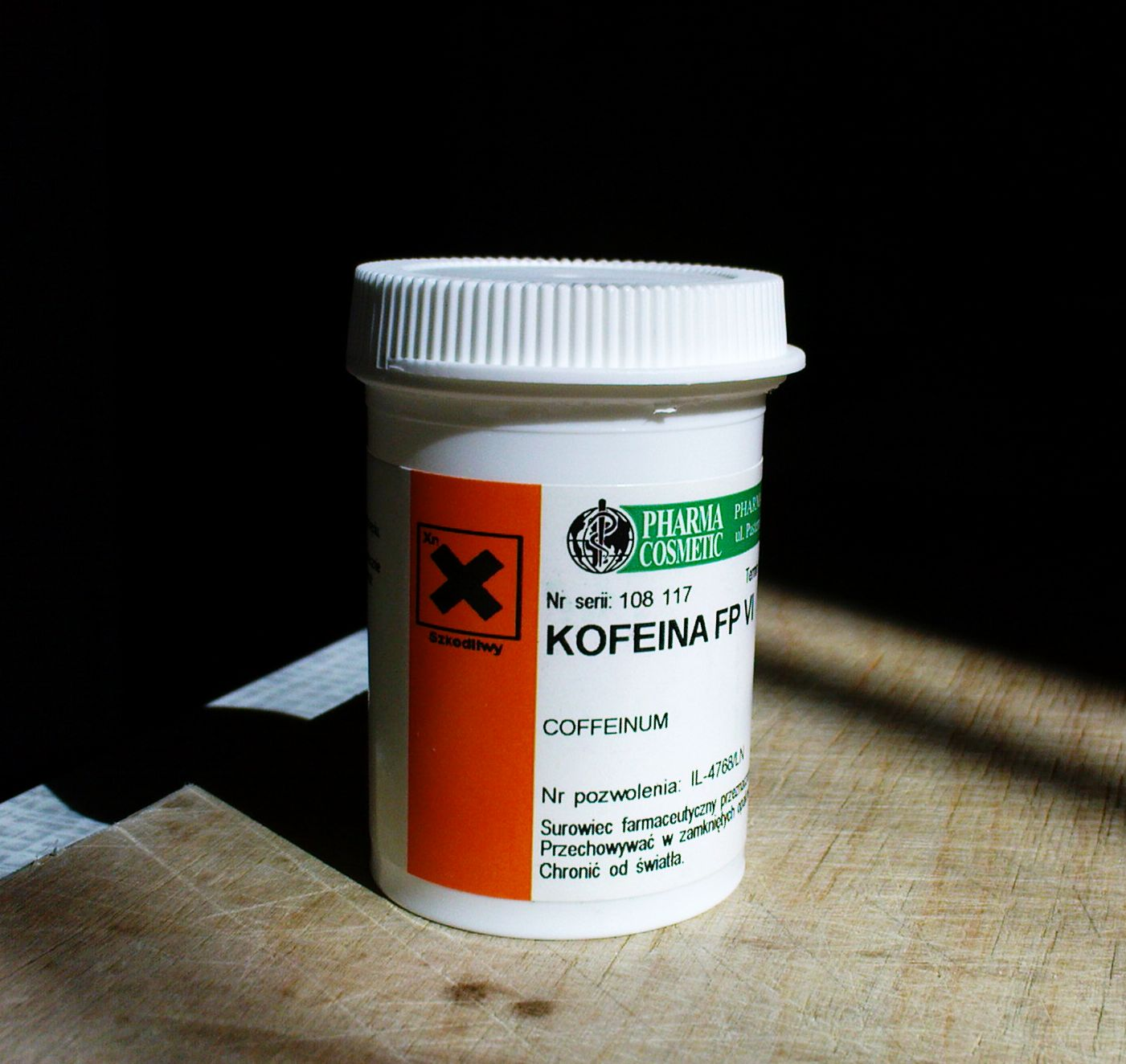 Anhydrous caffeine